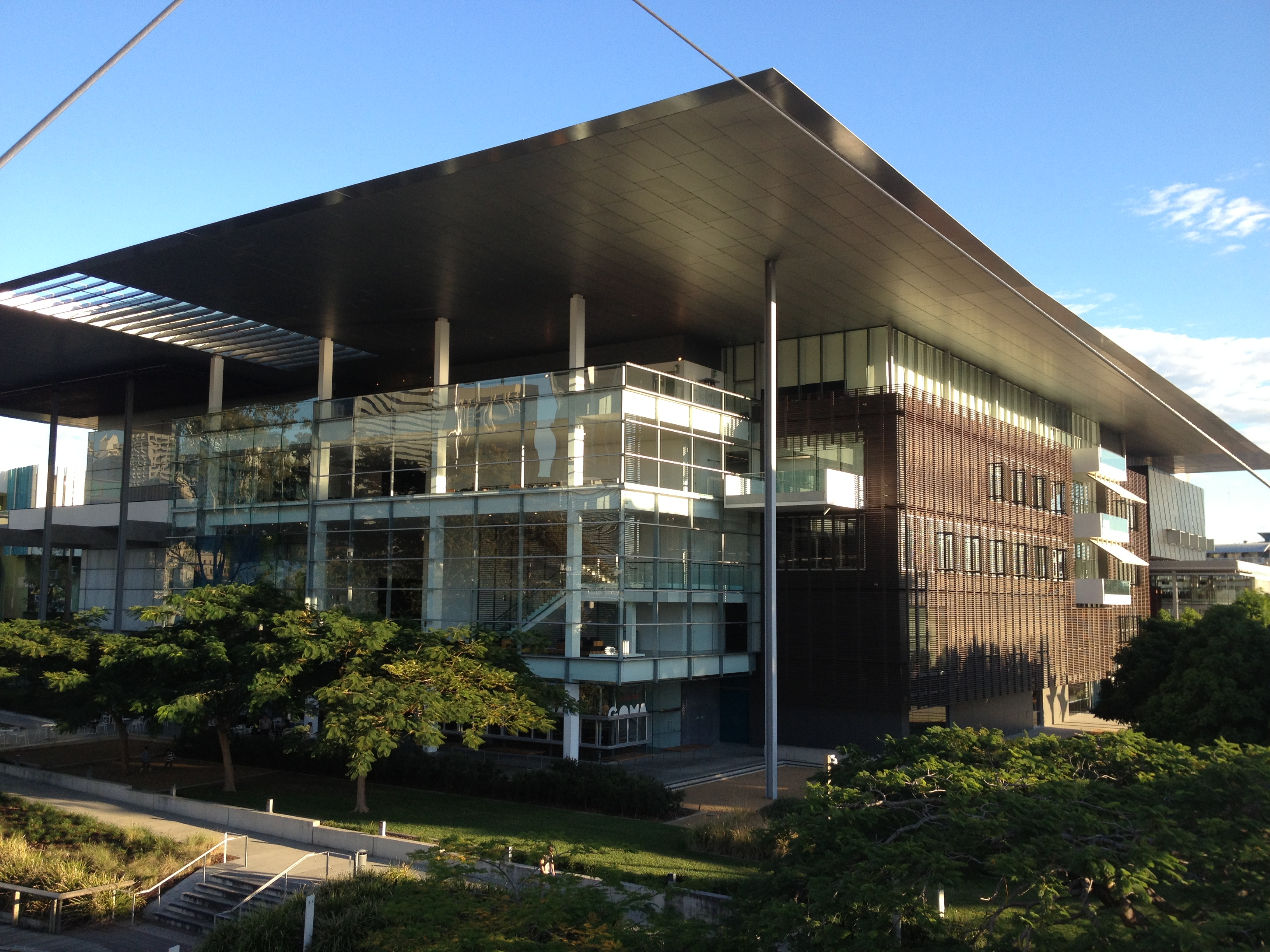 Queensland Gallery of Modern Art from Kurilpa Bridge, South Bank, Queensland, 07.2013